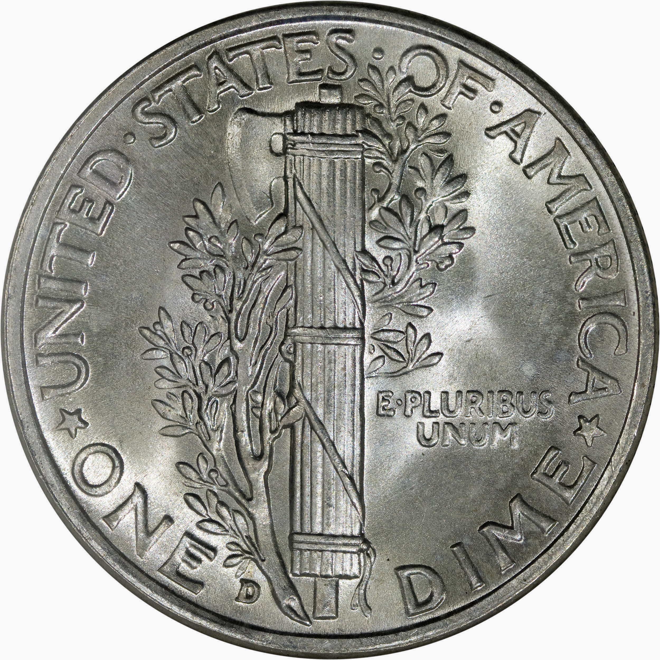 The reverse of a Mercury dime minted in 1943 in Denver. Note the mint mark "D" to the right of the word "ONE" and to the left of the fasces and olive branch. This coin is uncirculated exhibiting full luster and strike.